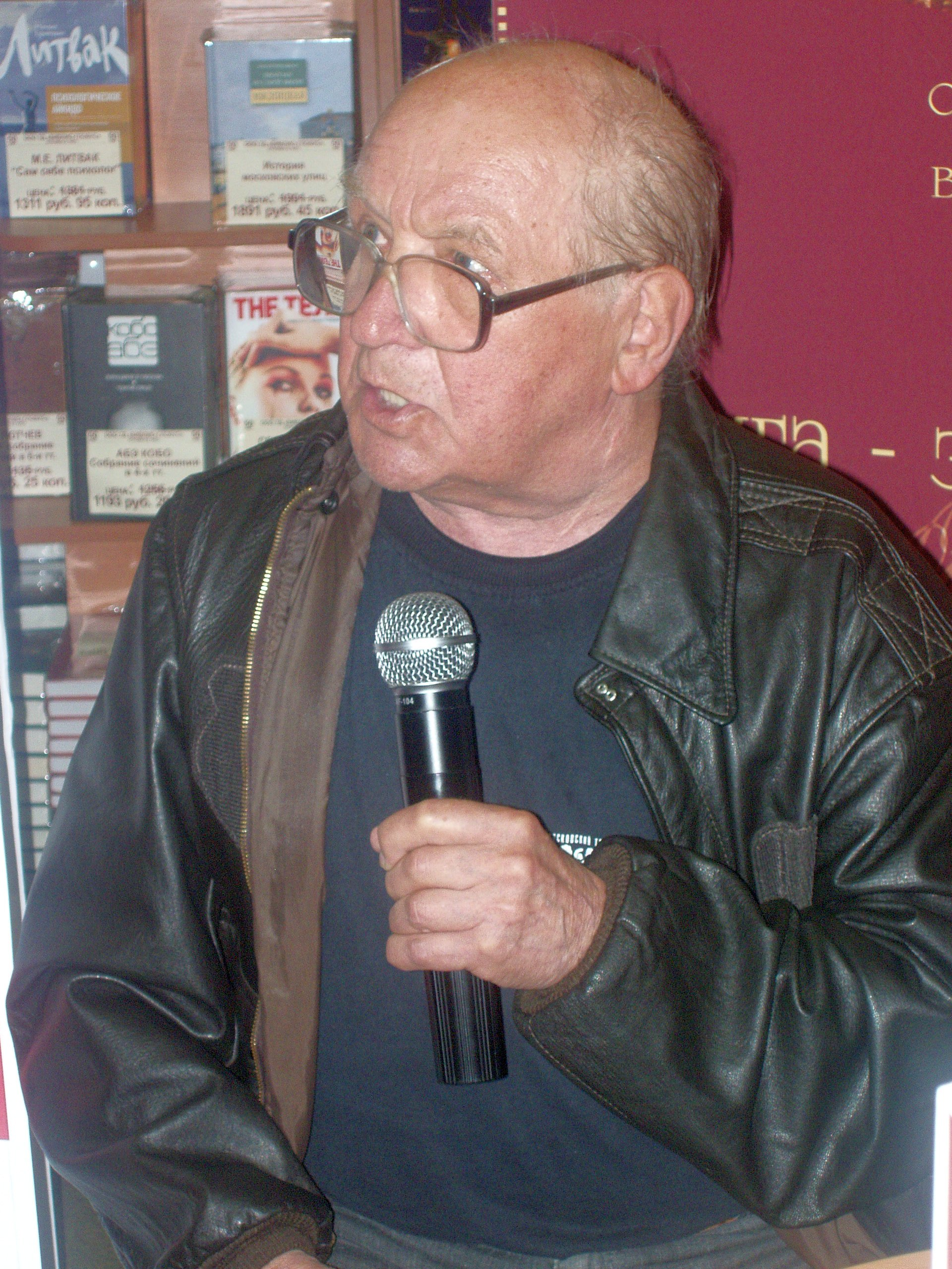 Lev Durov - Soviet/Russian theatre and films actor, People's Artist of USSR.